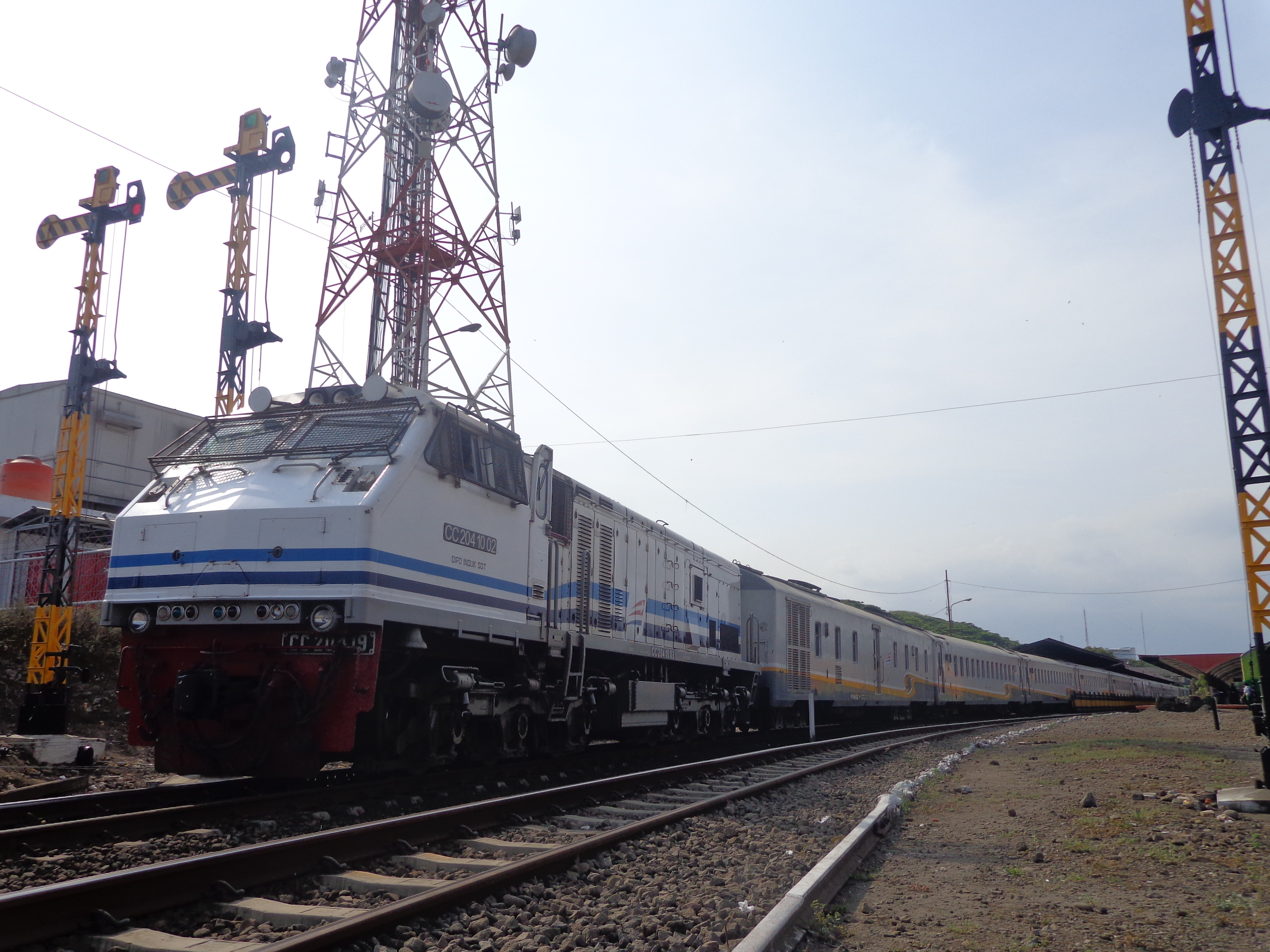 Executive class train no. 31 Gajayana headed by a single GE C20EMP no. CC2041002 awaiting departure at Malang Station in East Java, Indonesia, September 2013